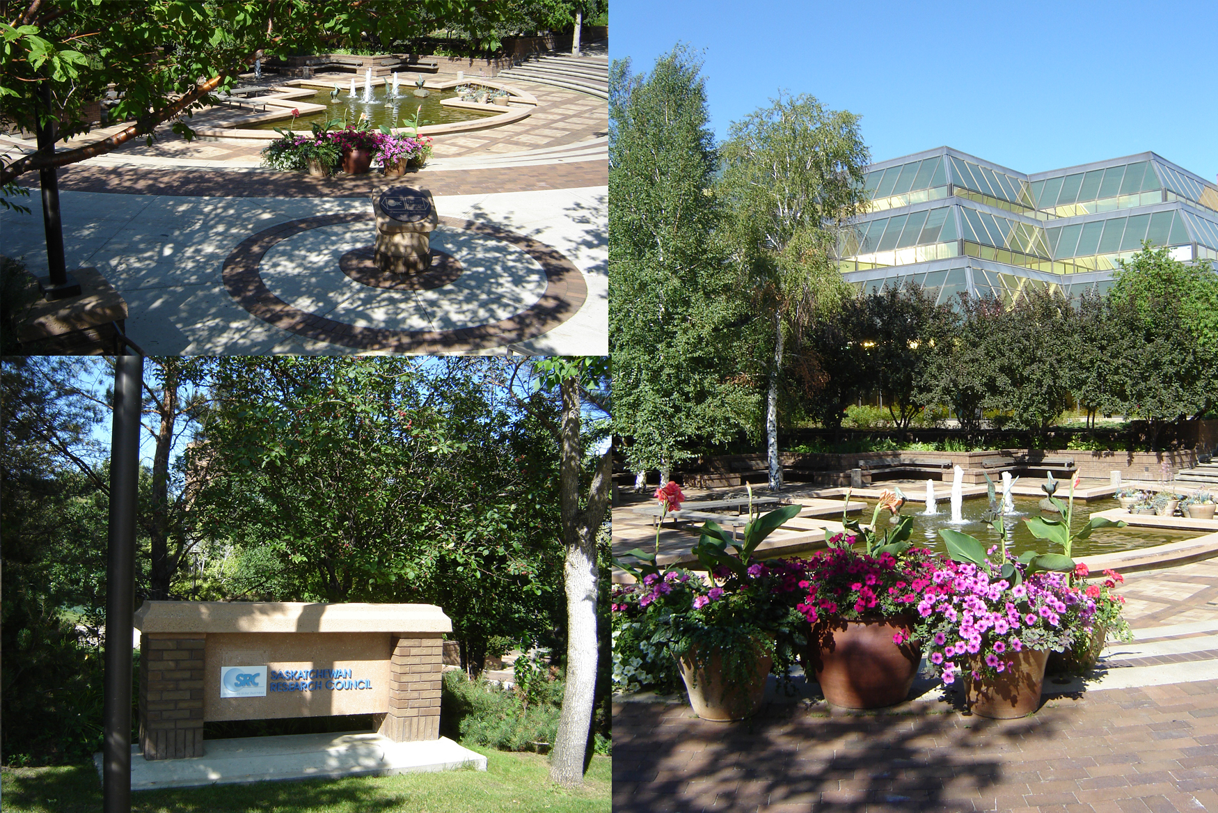 Saskatchewan Research Council located in Innovation Place Research Park U of S Saskatoon Saskatchewan Canada